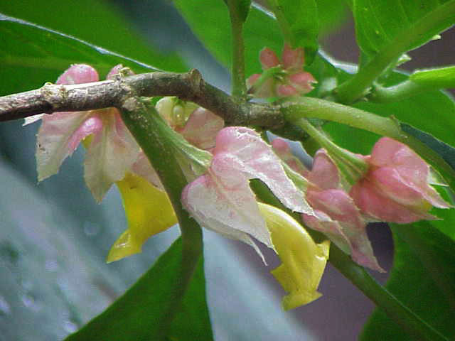 Species: Drymonia sp. Family: Gesneriaceae Image No. 1